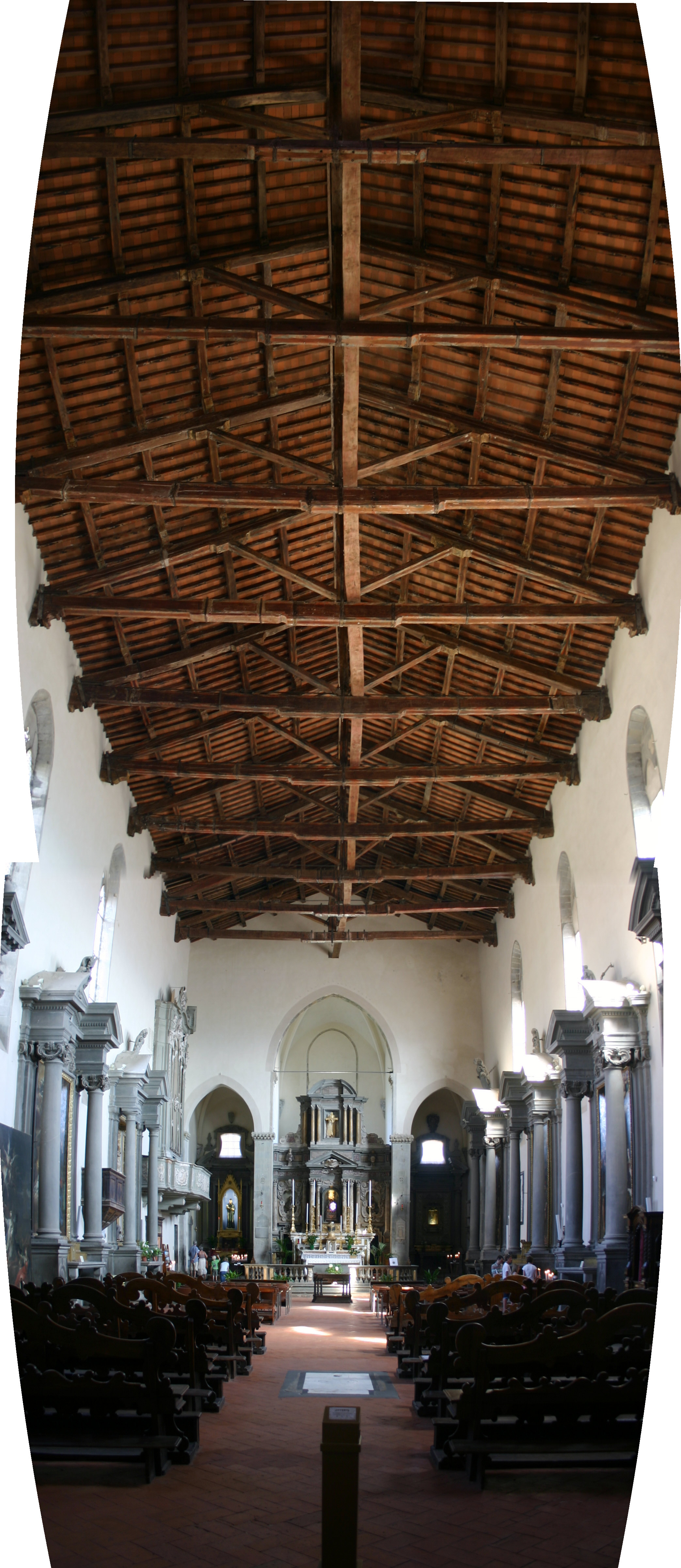 Interior view in the San Francesco church, Cortona, Italy.